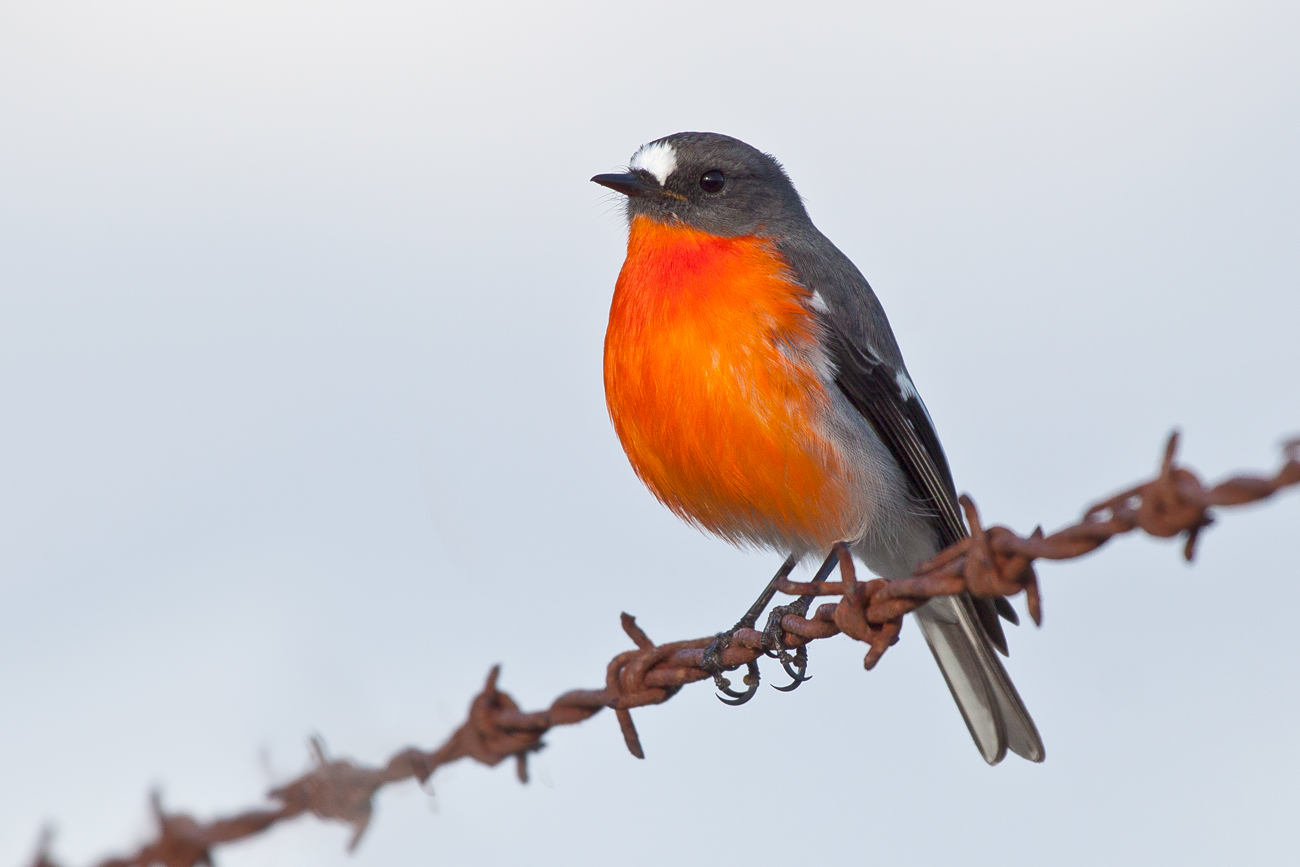 A Flame Robin in Newstead, Victoria, Australia.